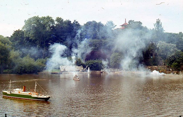 Peasholme Park Lake